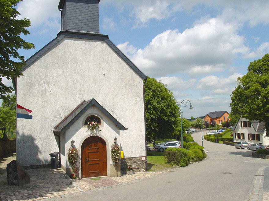 The village of Roder, Luxembourg. Photograph taken by David Edgar on 5th June 2006.